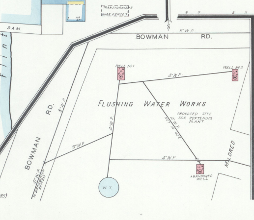 Clip of a 1934 fire map of Flushing Michigan showing waterworks park.